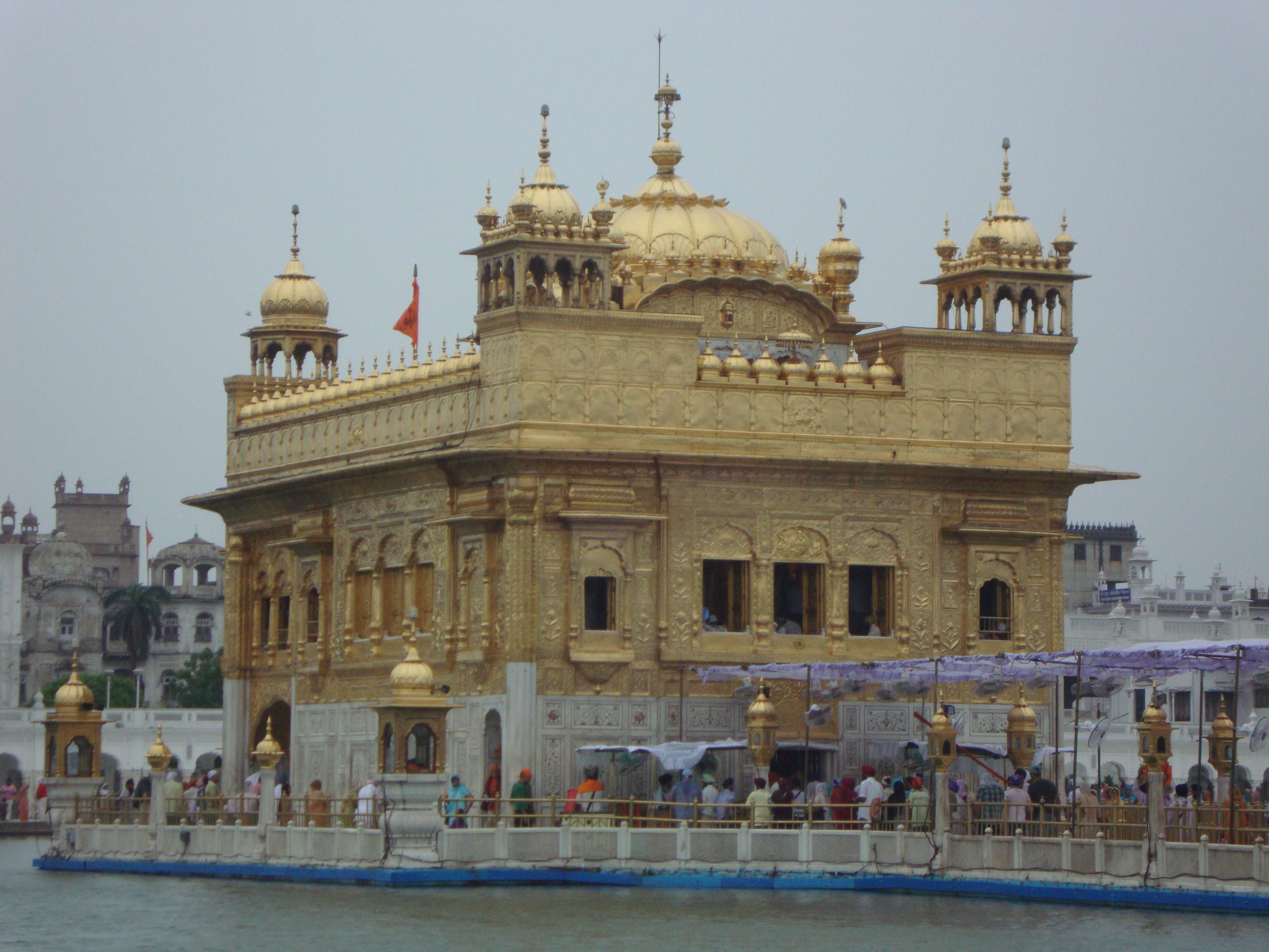 Golden Temple